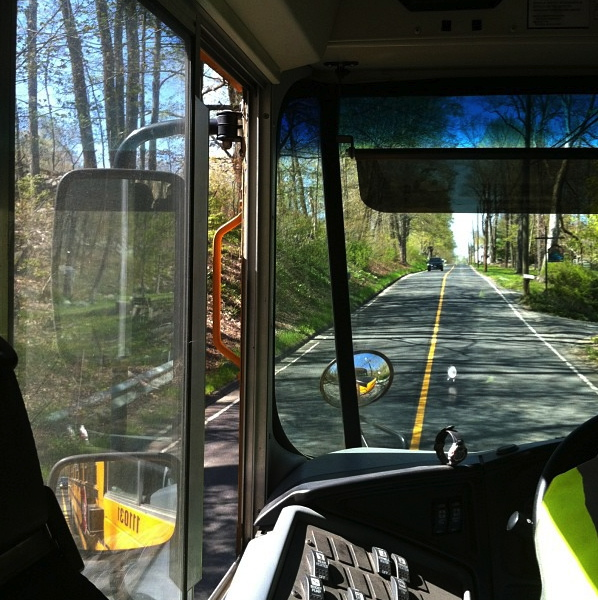 This is an inside view of a school bus that shows the many safety features of school buses, including several mirrors and built in sun visor.